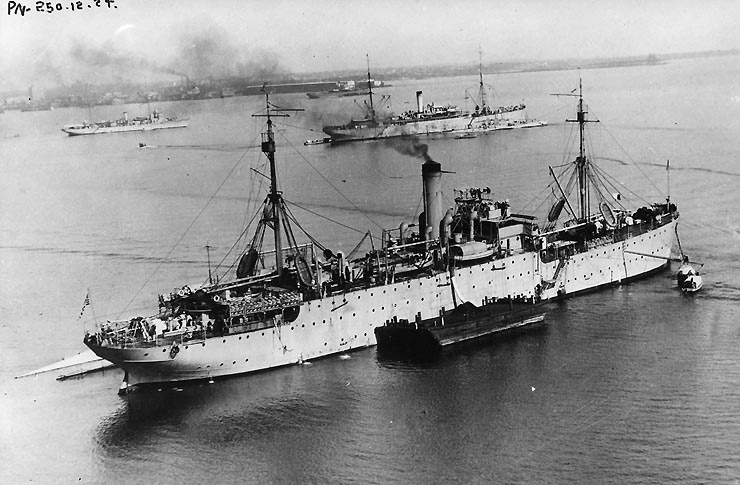 The U.S. Navy submarine tender USS Camden (AS-6) off Pensacola, Florida (USA), on 23 December 1924. The ships in the distance are: USS Savannah (AS-8), in center, and USS Bushnell (AS-2), at left. The original print was autographed in June 1967 by Admiral Thomas C. Hart, USN (Retired), who used Camden as his flagship from May 1930 to January 1931, while he was Commander, Control Force, U.S. Fleet. He was a Rear Admiral at that time.